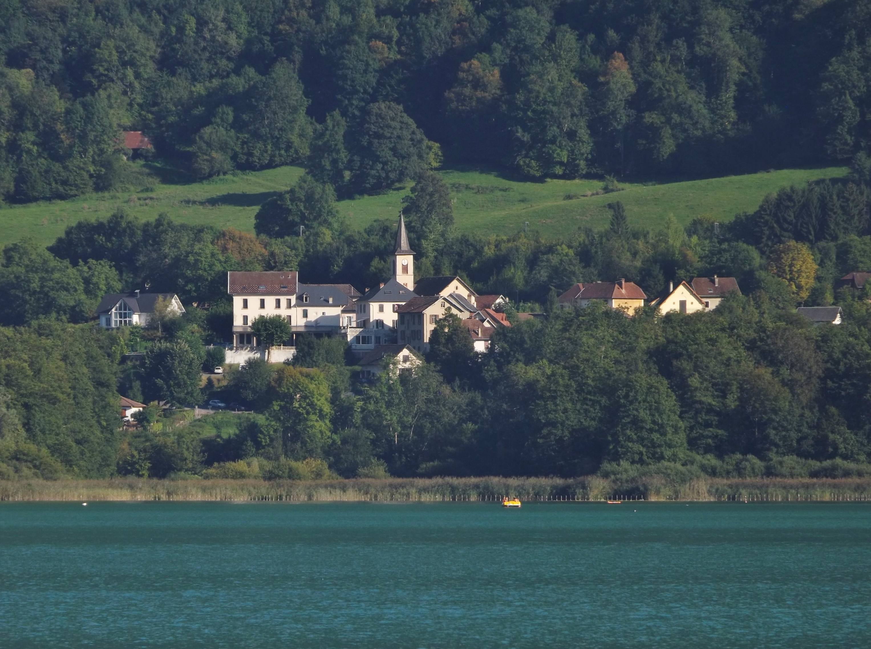 Panoramic sight on Aiguebelette-le-Lac commune, between the lac d'Aiguebelette lake and the chaîne de l'Épine mountain, near Chambéry in Savoie, France.